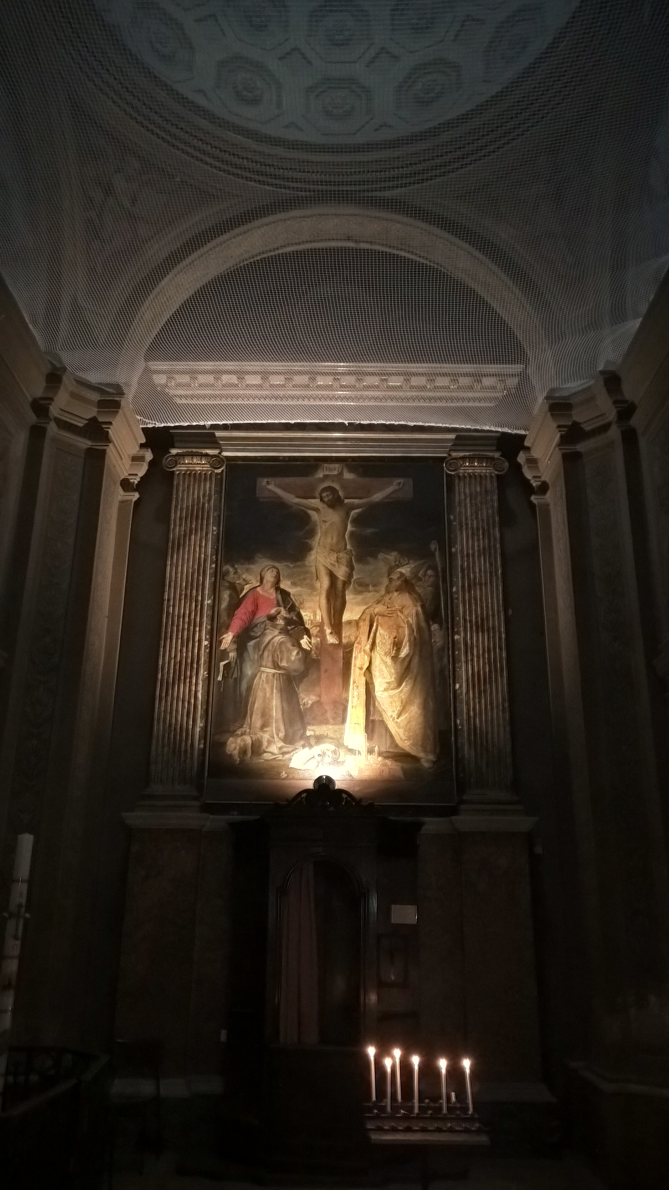 Crucifixion with Madonna and Saints, 1583, at church Santa Maria della Carità, Bologna, from the italian bolognese painter Annibale Caracci